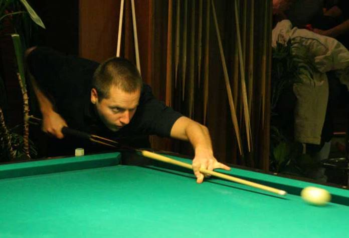 Pool Player Marcus Chamat